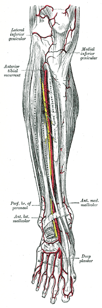 Arteries of the lower leg, anterior view.